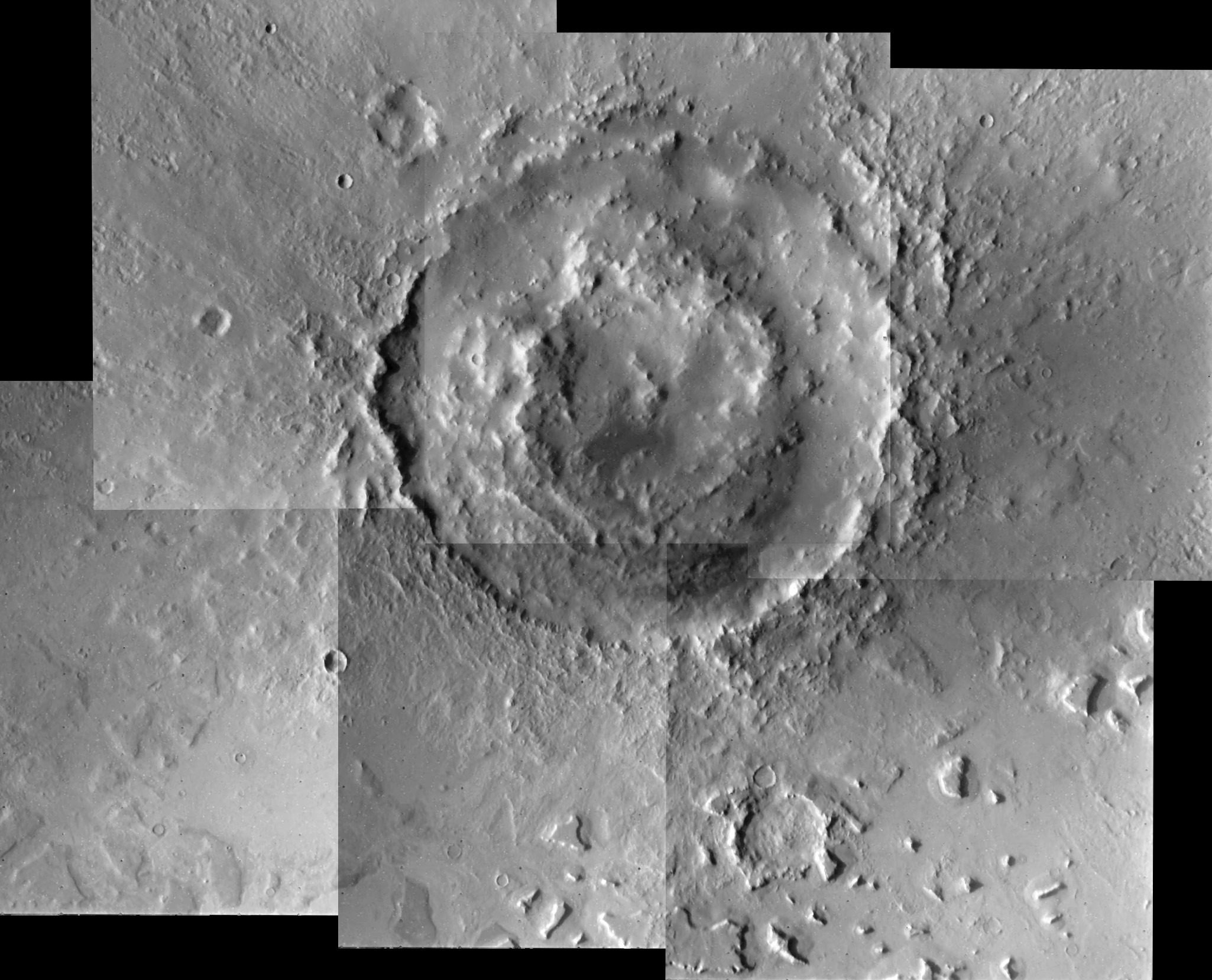 Lyot crater, a relatively fresh peak ring crater on Mars. Mosaic of three Viking 2 images from camera A (675B16, 675B18, 675B20) and three from camera B (675B39, 675B41, 675B43). Minus blue filter was used for these images. All images were despeckled prior to mosaicing. North is at top. Statistics below are for an average of the central two images: Emission Angle: 11.5 Incidence Angle: 74.3 Latitude: 50.3 Longitude: 27.0 Phase Angle: 69.2